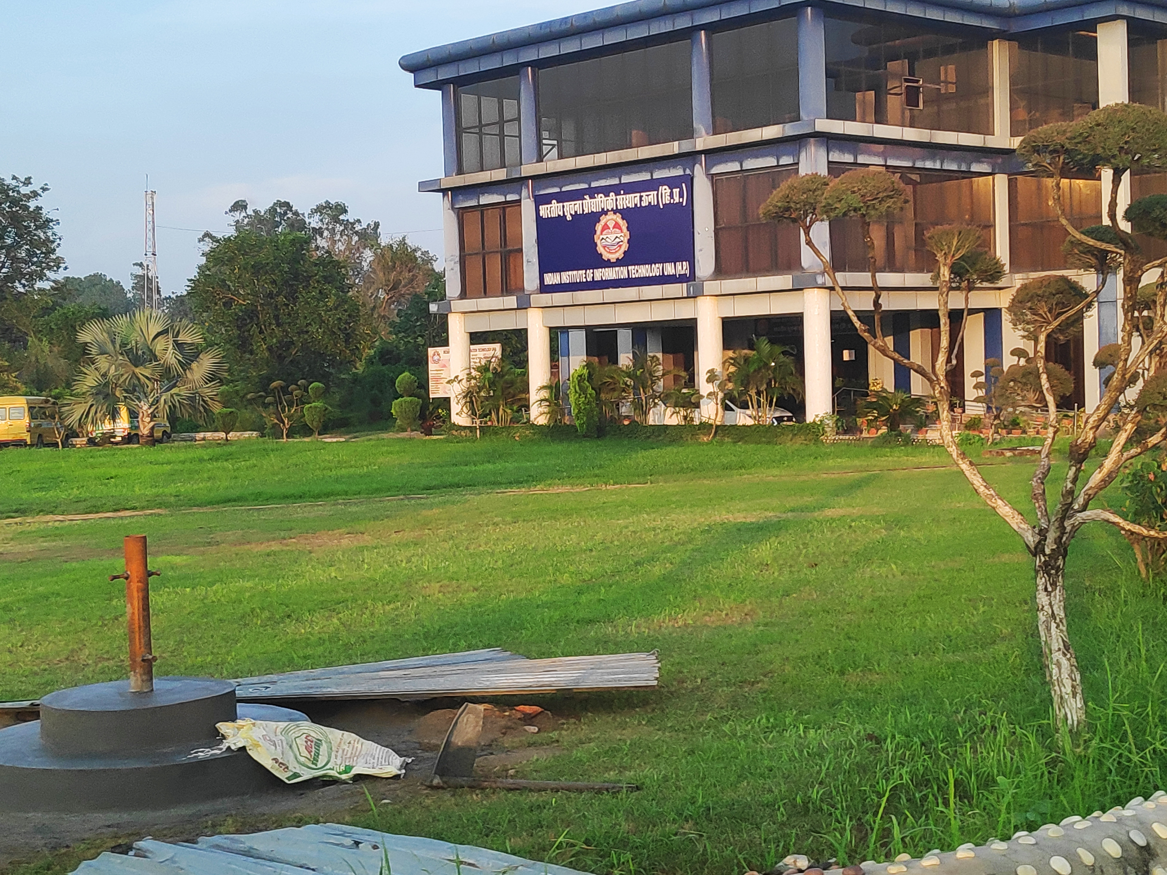 Another view of administrative building at transit Campus 2